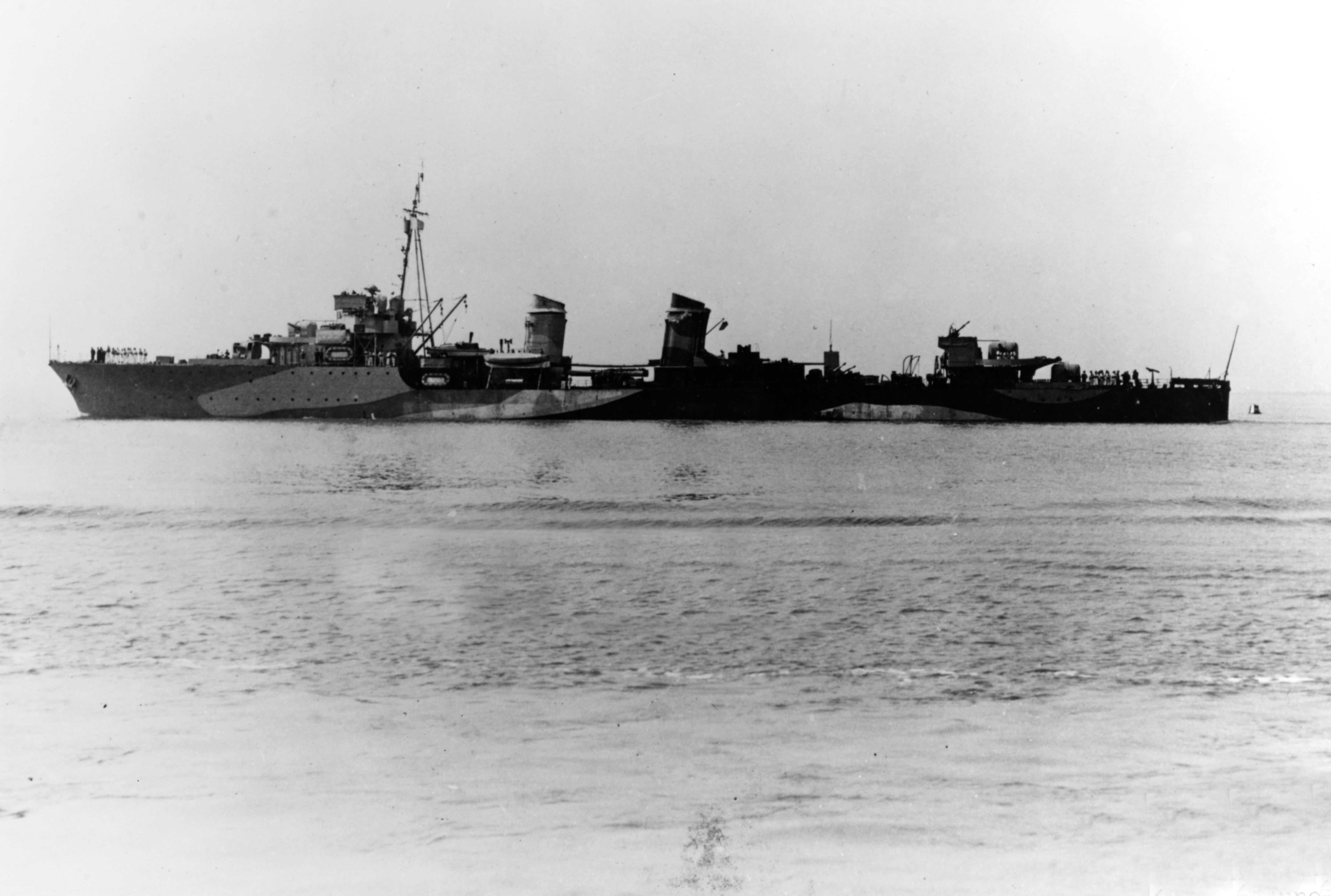 The Free French destroyer Léopard on 6 June 1942, following refit in the United Kingdom in which her forward stack and boilers were removed, fuel stowage increased and additional anti-aircraft guns fitted. Note her British-style pattern camouflage.